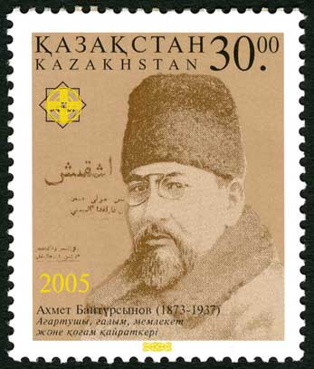 Akhmet Baitursynov, Kazakhstan stamp, 2005.